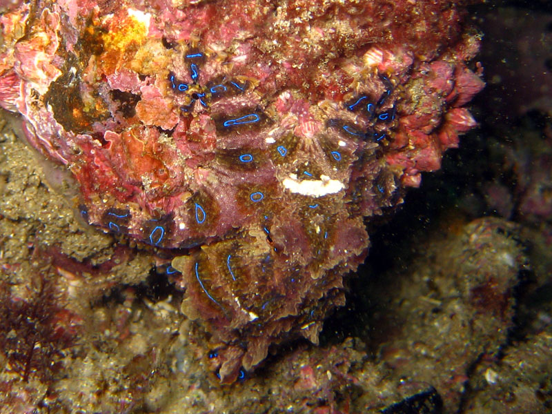 Photo of a blue-ringed octopus taken by David Breneman underneath the coal loading jetty at Catherine Hill Bay in NSW, Australia on the 24th of March, 2007.